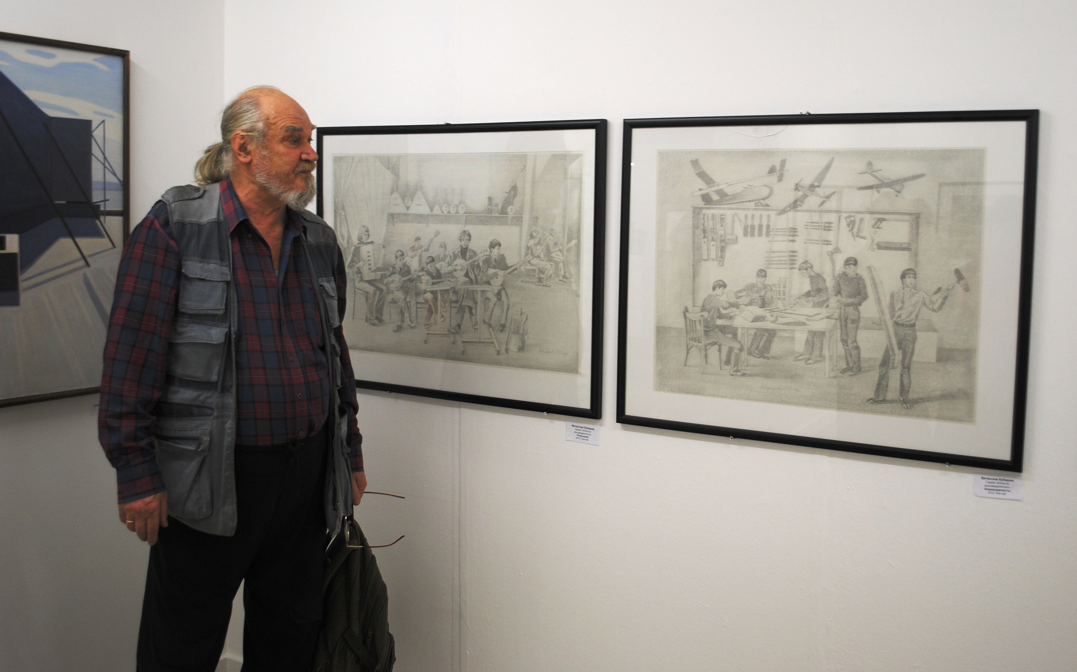 Kubarev Livny